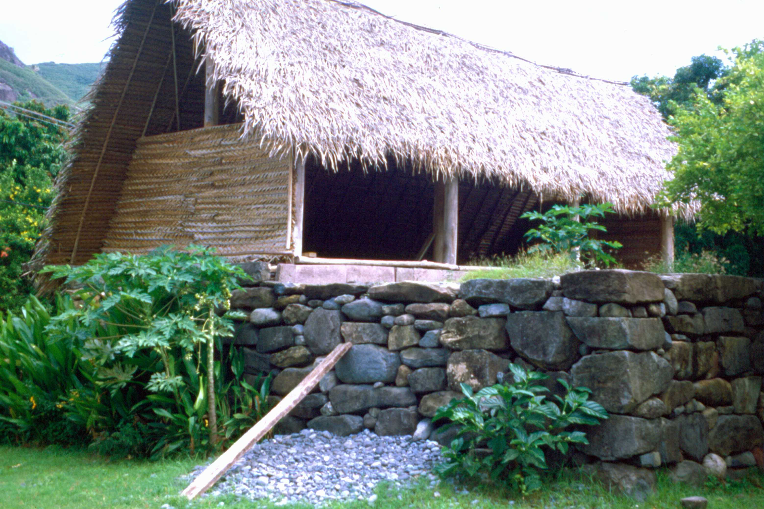 Reconstruction of a traditional marquesan house on Ua Pou Island, Marquesas Islands, French Polynesia